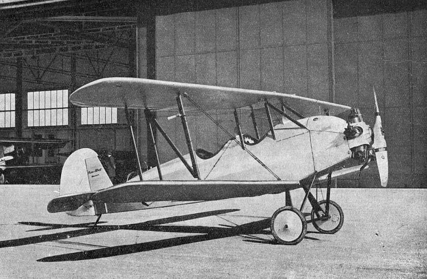 Focke-Wulf S 24 Kiebitz with Walter NZ-60 engine